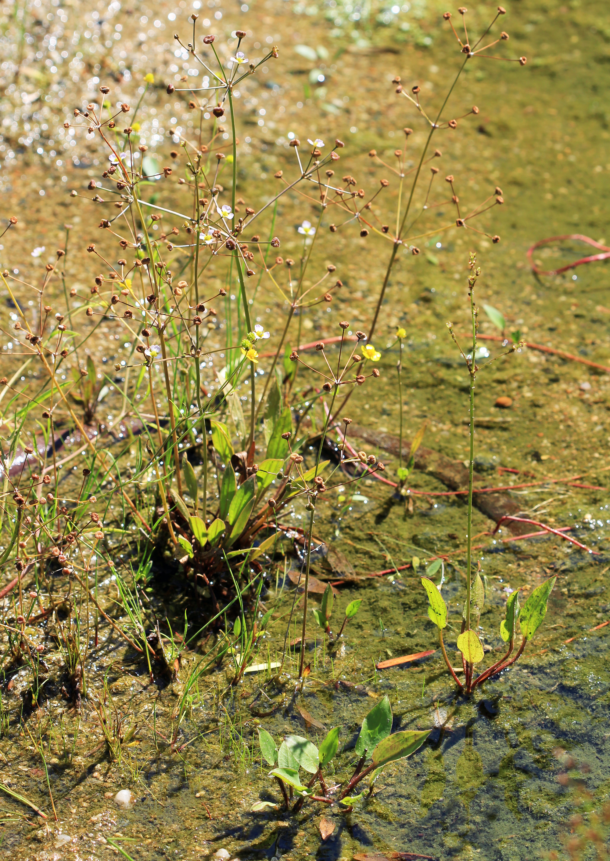 Water plant Alisma gramineum, (Alisma gramineum), whole plants from the Botanical Gardens of Charles University, Prague, Czech Republic